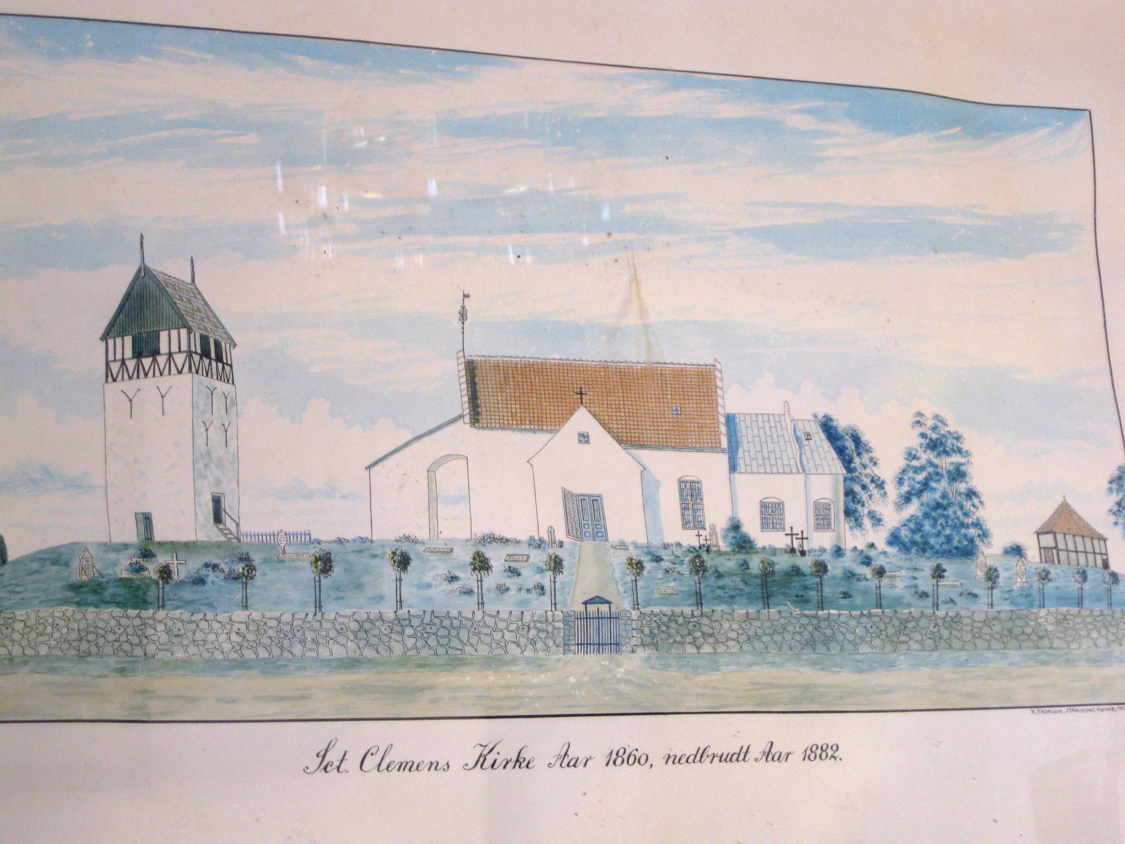 Drawing (from app. 1920) of the old version of the church "Sankt Clemens Kirke". The church is located in the small town "Klemensker" on the island Bornholm in east Denmark.